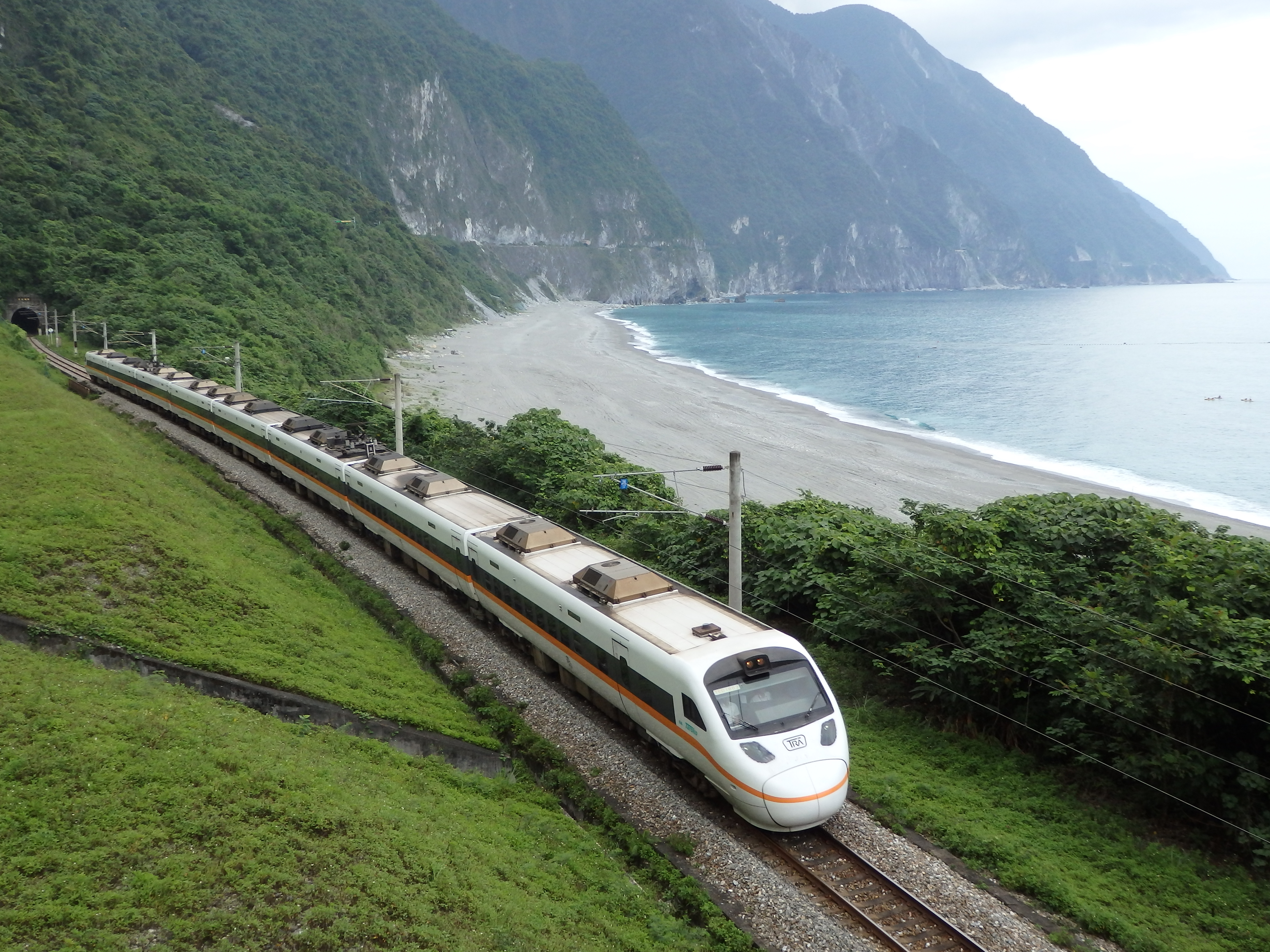 TRA Taroko Express TEMU1000 at North-Link Line between Heren Station and Chongde Station